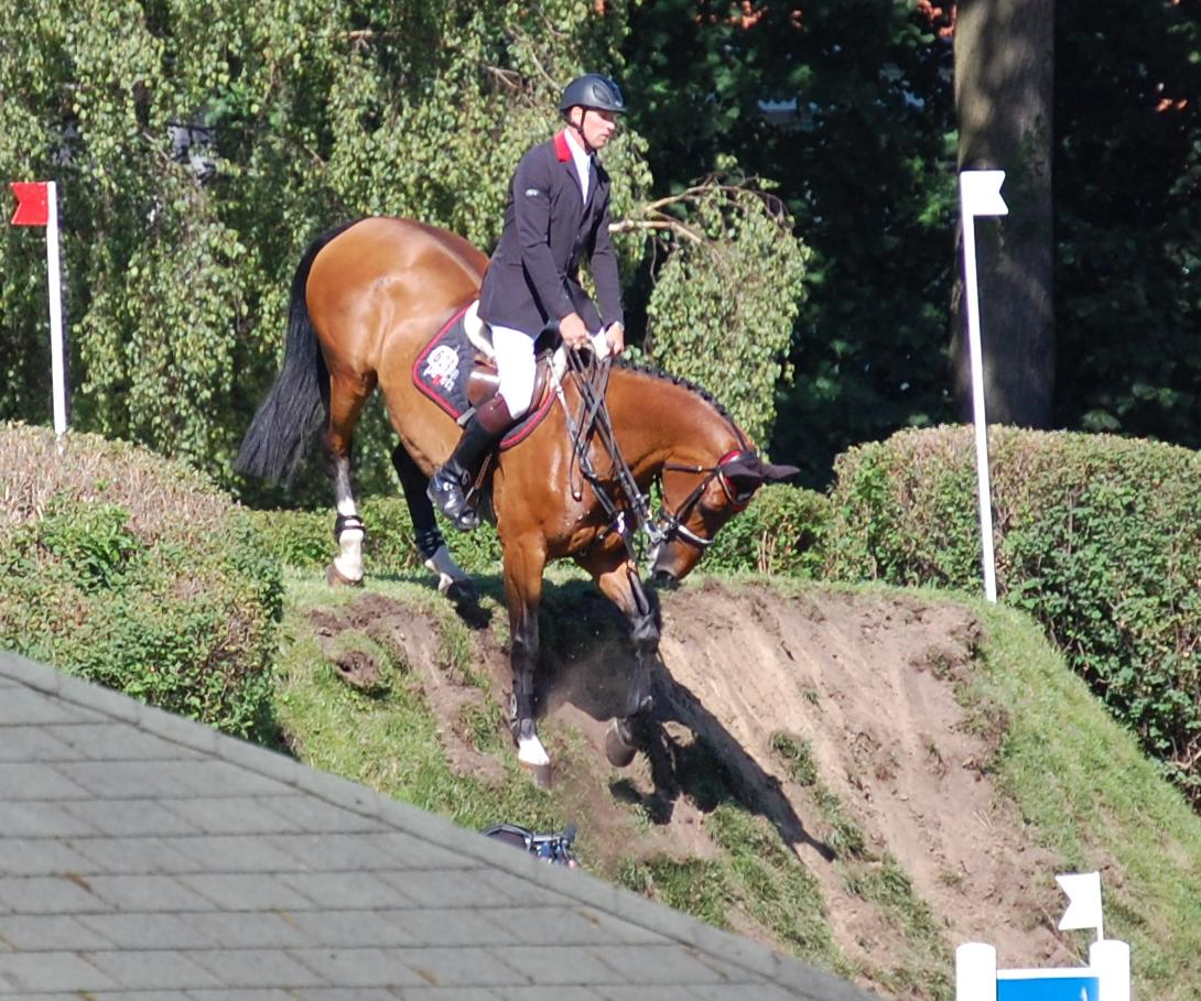 Andre Thieme with Nacorde, 2nd qualifier to the German show jumping derby in Hamburg 2011 (CSI 3*).